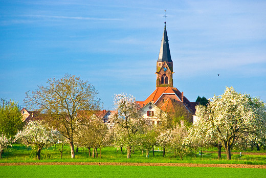 Church of Schwanau-Nonnenweier